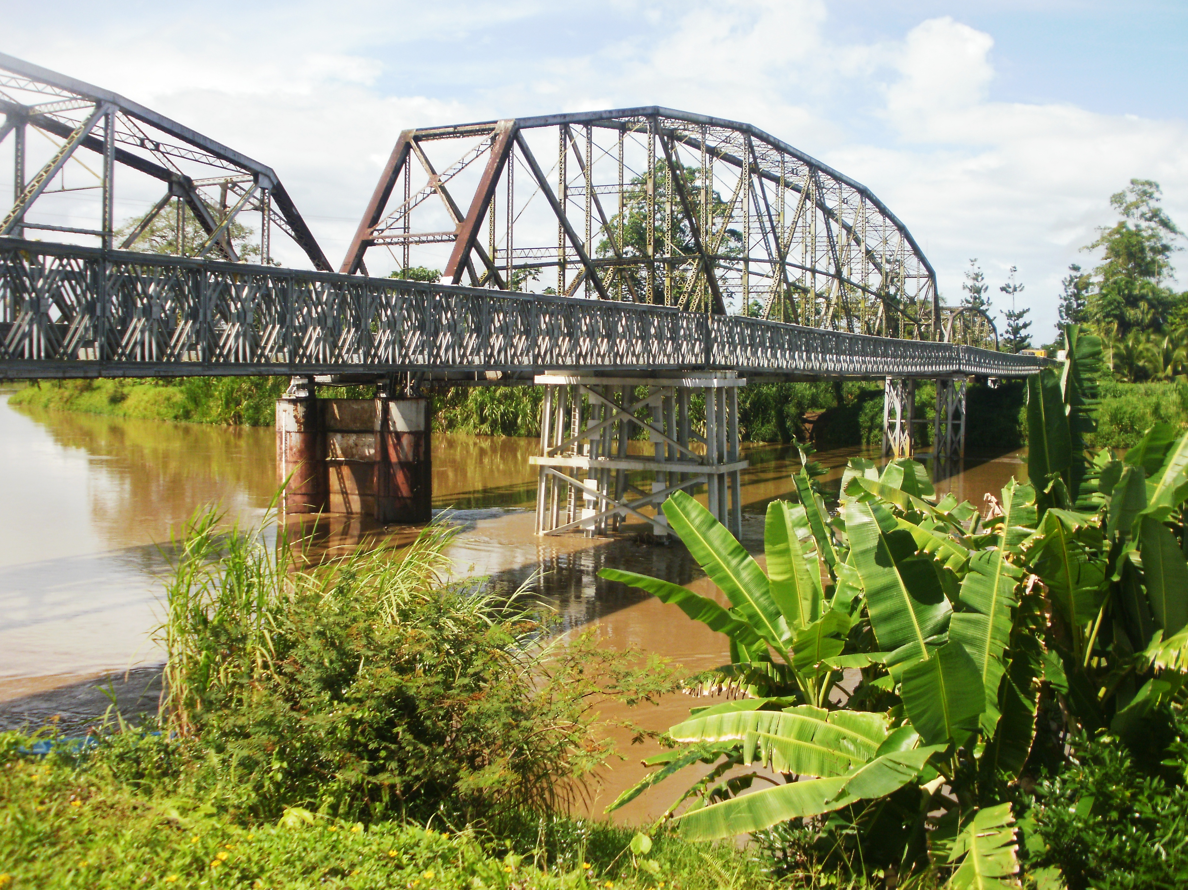 Brigde spanning the Sixaola River, the natural border dividing Panama and Costa Rica.